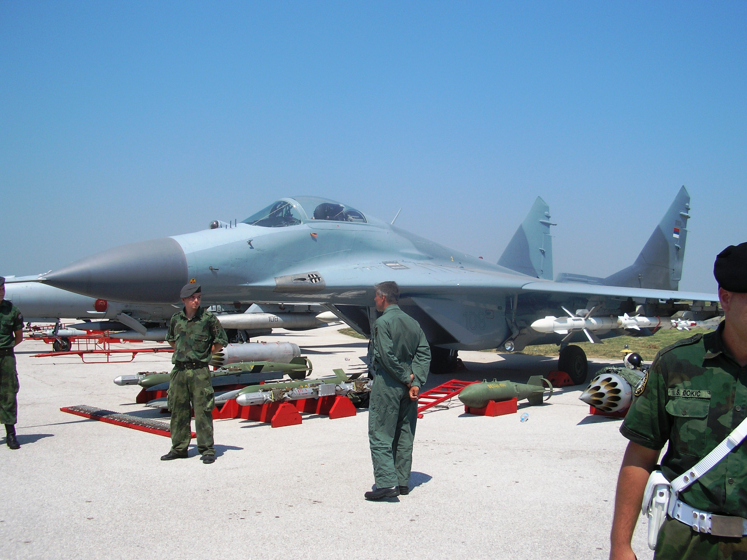 MiG-29 fighter aircraft No. 18108 of 101. Fighter-Aviation Squadron, 204th Air Base of Serbian Air Force, on display at Batajnica airbase during the Saint Elijah, the Aviation Day in Serbia.